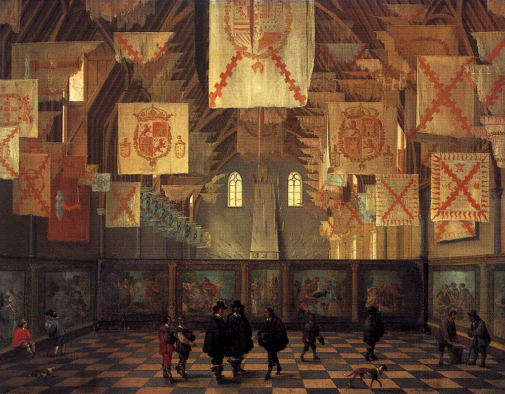 Interior of the Great Hall on the Binnenhof in The Hague. The painting consists of a 52 × 66 cm wooden panel with attached to it a smaller 9 × 42 cm copper plate. When this plate is lowered the Great Assembly of the States General in 1651 becomes visible (see File:Great Assembly of the States-General in 1651 01.jpg).